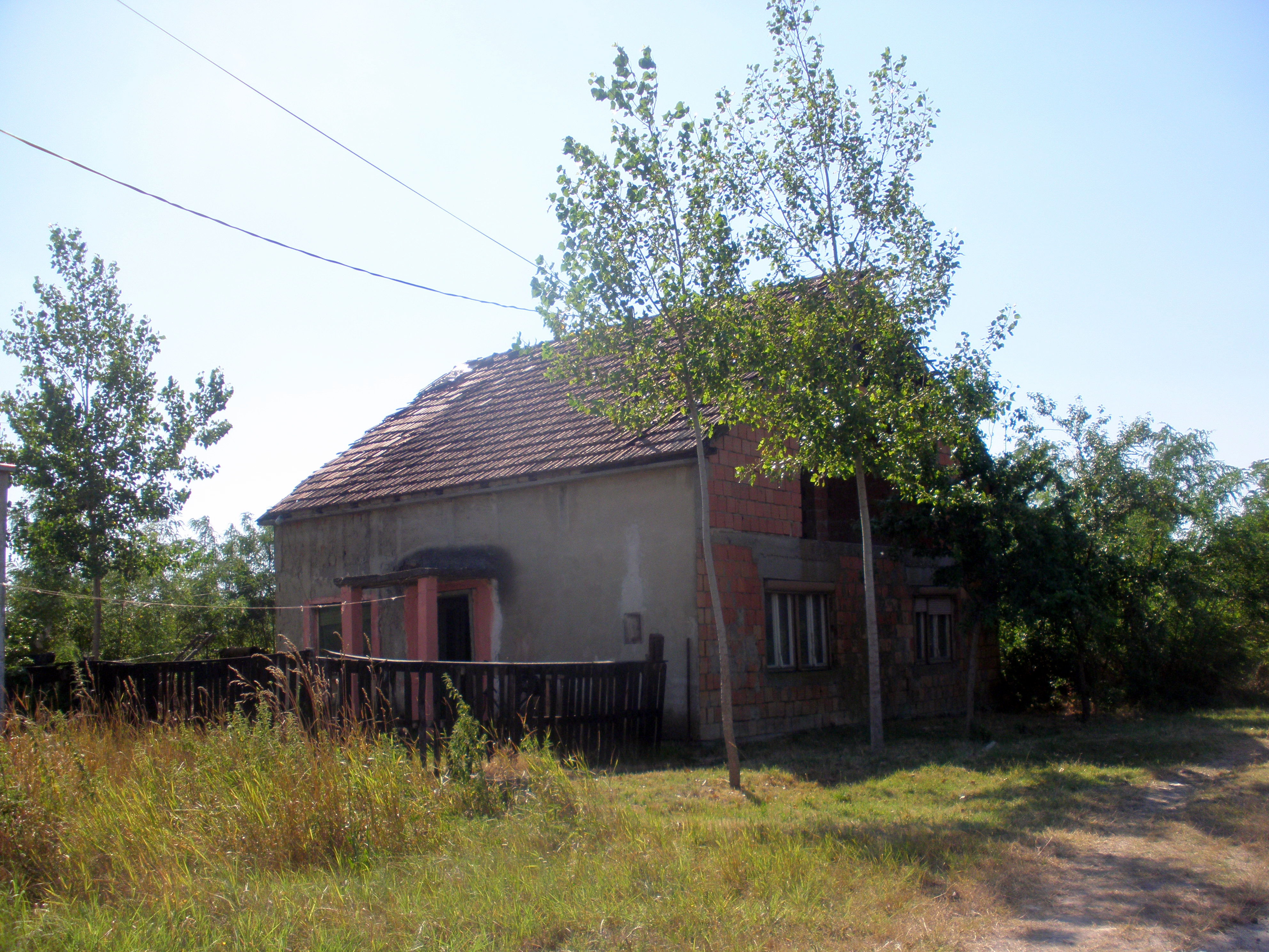 Here is born Janika Balázs, famous violinist and choir-dirigent